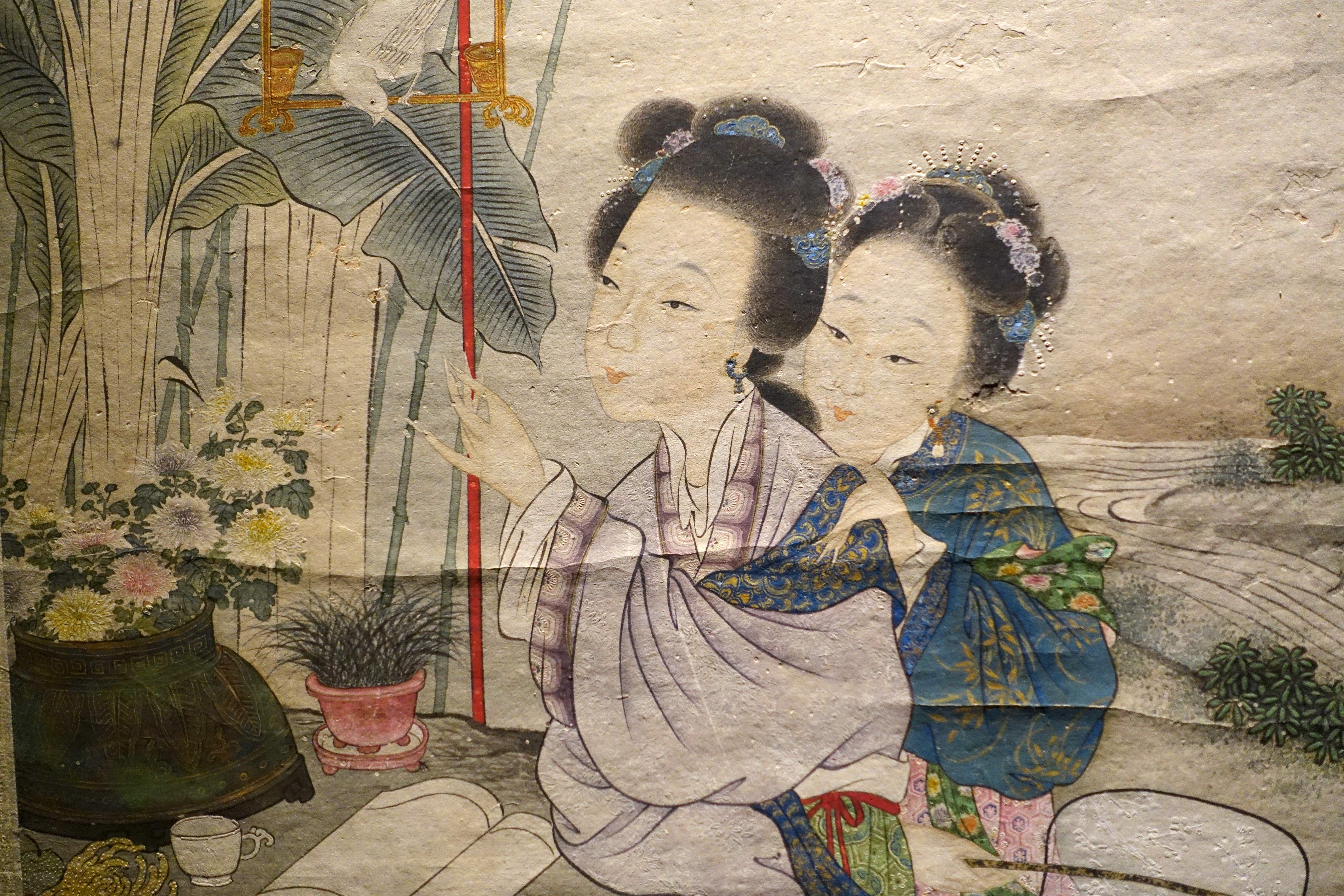 Exhibit in the Museu do Oriente - Lisbon, Portugal. This work is old enough so that it is in the public domain.